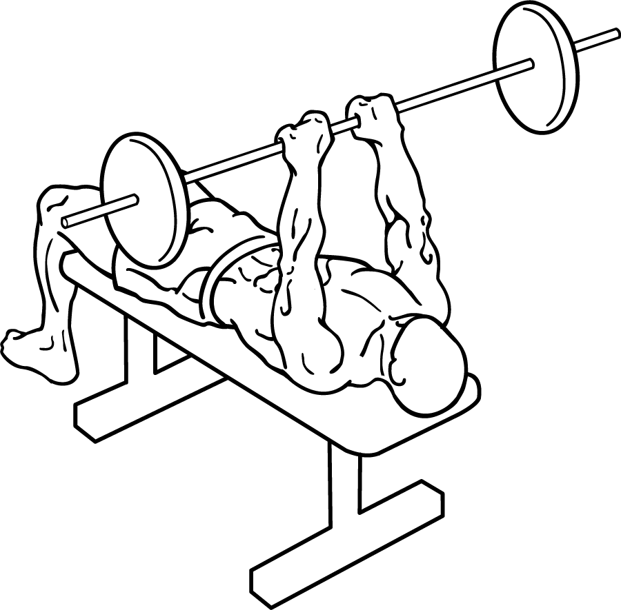 an exercise of triceps